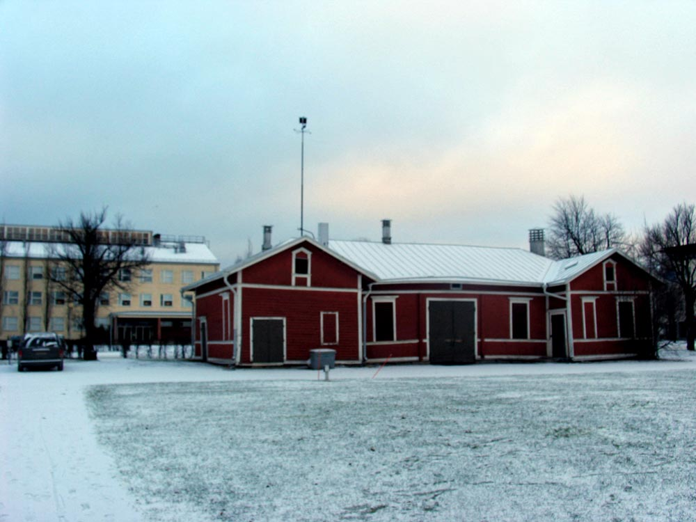 Joensuu rock musicians future concert hall place